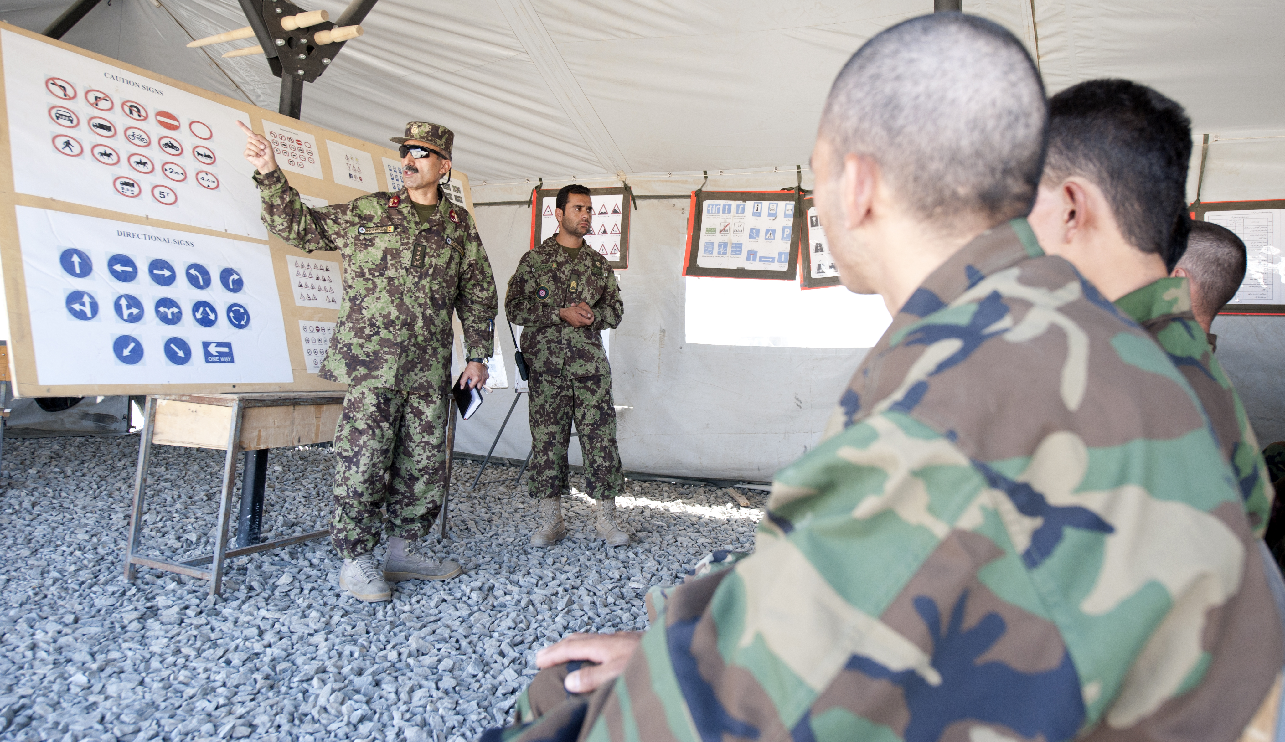 Afghan National Army recruits take a driver training course on Kabul Military Training Center Sept. 14, 2010. Marine Cpl. Sidney Johnson, 28, said "It's like teaching the typical 16 year old how to drive. They have to learn all the basics first, before they can head out on the road." He added, "They're very receptive to everything we're teaching and eager to learn. They've excelled to the point where we've added maintenance instruction as well." Johnson, a driving instructor and assistant team leader, is deployed to Afghanistan from Okinawa, Japan. (Photo by G. A. Volb)